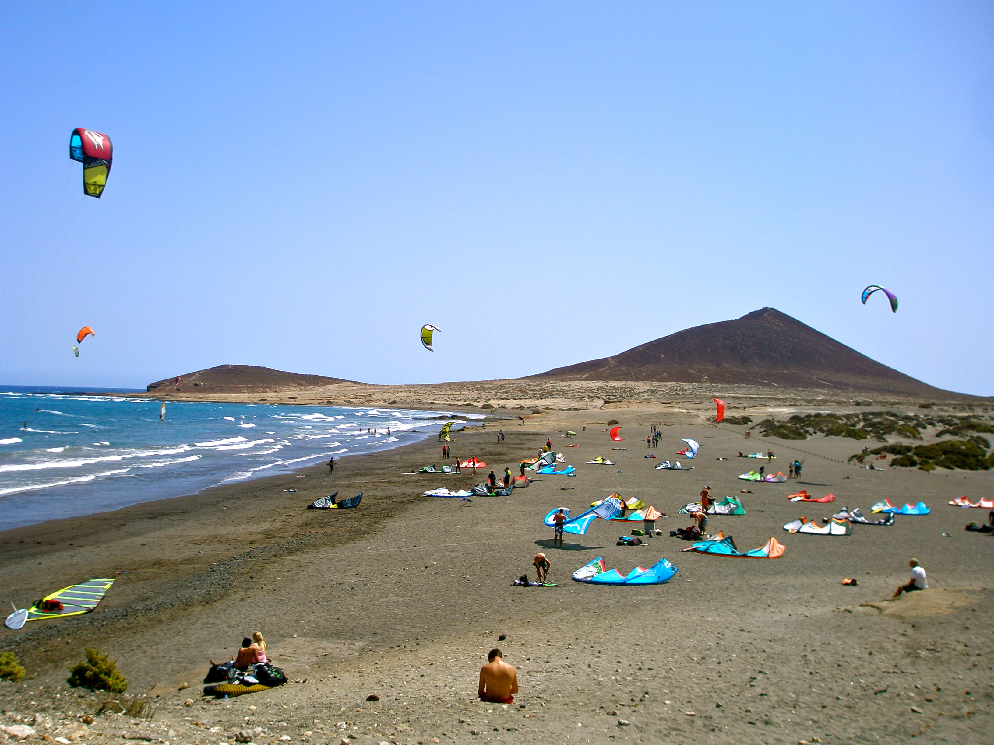 El Médano, Tenerife